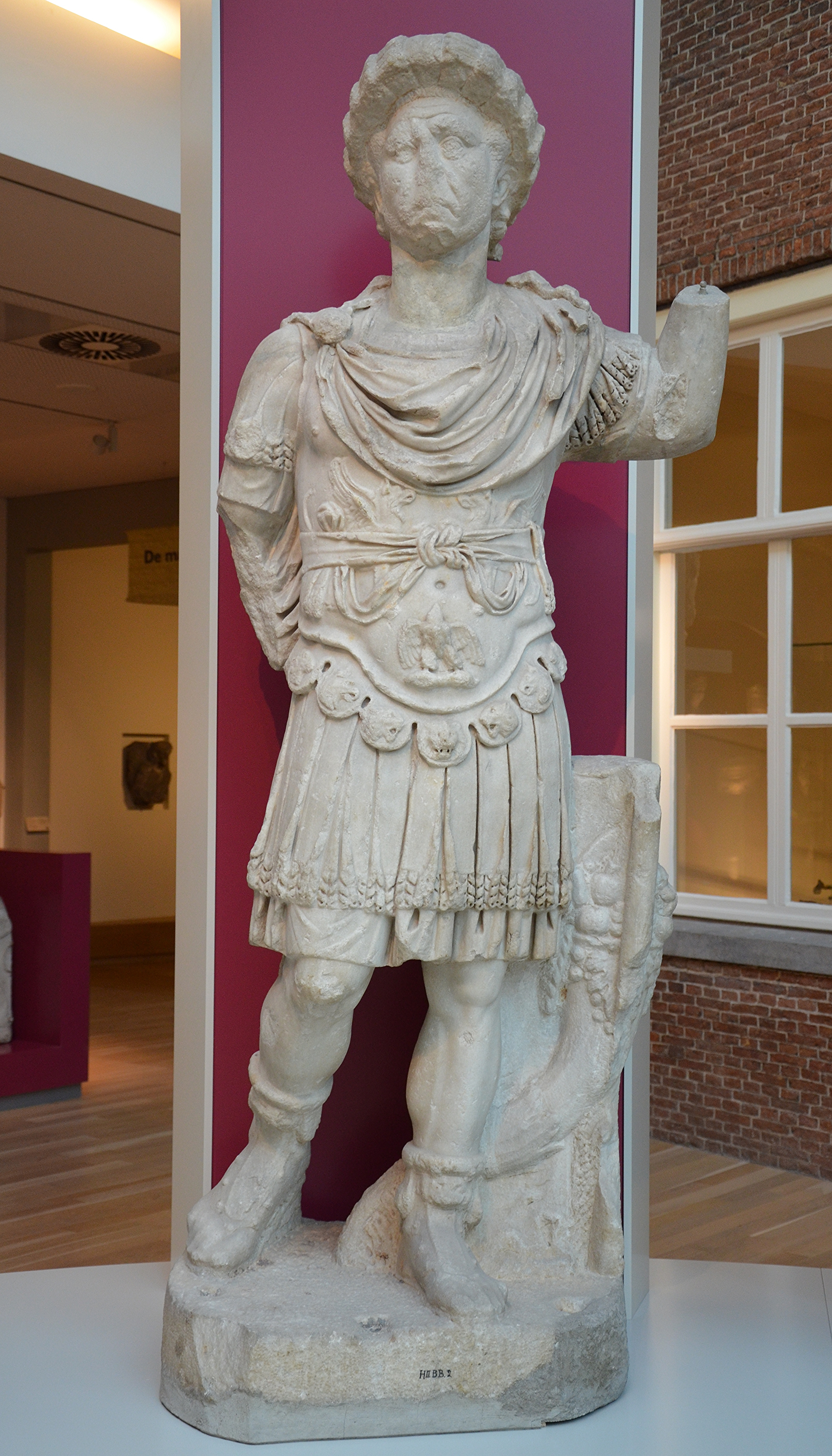 Statue of Maximian, from Utica (Tunisia), Rijksmuseum van Oudheden, Leiden